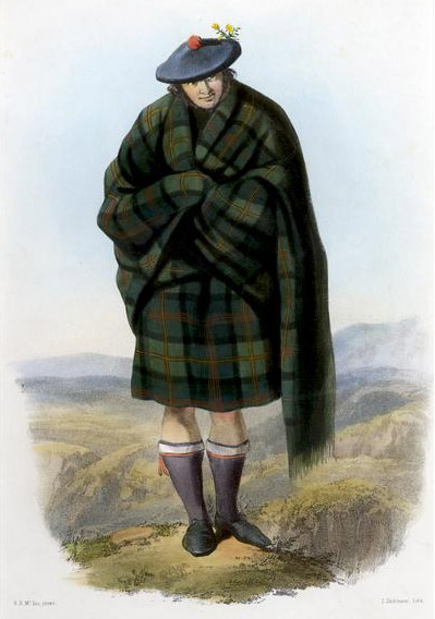 "Mac Lennan". A plate illustrated by R. R. McIan, from James Logan's The Clans of the Scottish Highlands, published in 1845.